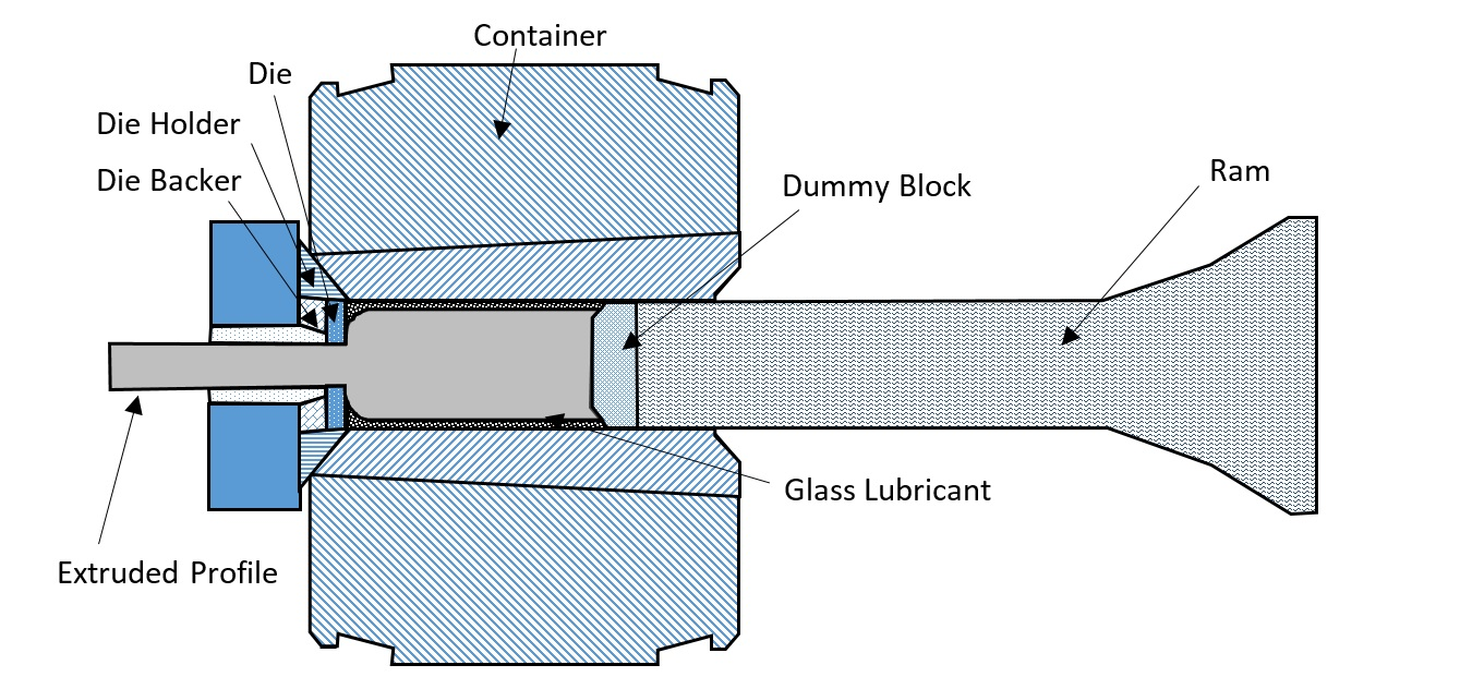 This picture represents a schematic diagram for the metal extrusion process